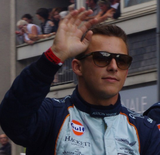 Christian Klien at the Le Mans 24 Hours 2011 Drivers' Parade